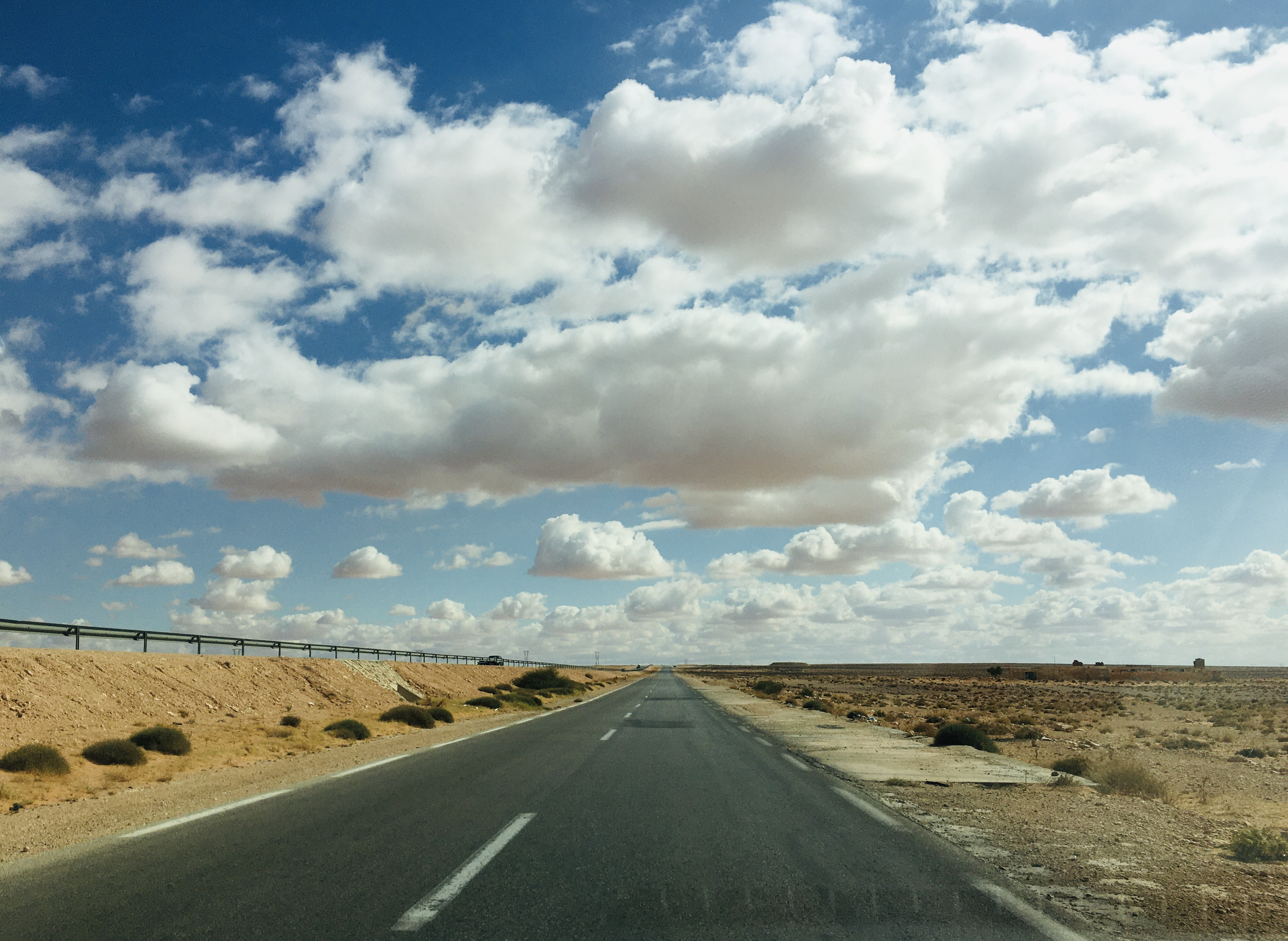 The photo was taken by myself as a driver, on a road between Laghouat and Ghardaïa (Algerian Sahara), the photo shows the chaotic road, full of holes. It is also very important to specify that this road is the «Trans Sahara Highway» and it’s the main (to not say the only one good) road to the south, allows also to join Subsaharian African countries. This is an image with the theme "Africa on the Move or Transport" from: Algeria